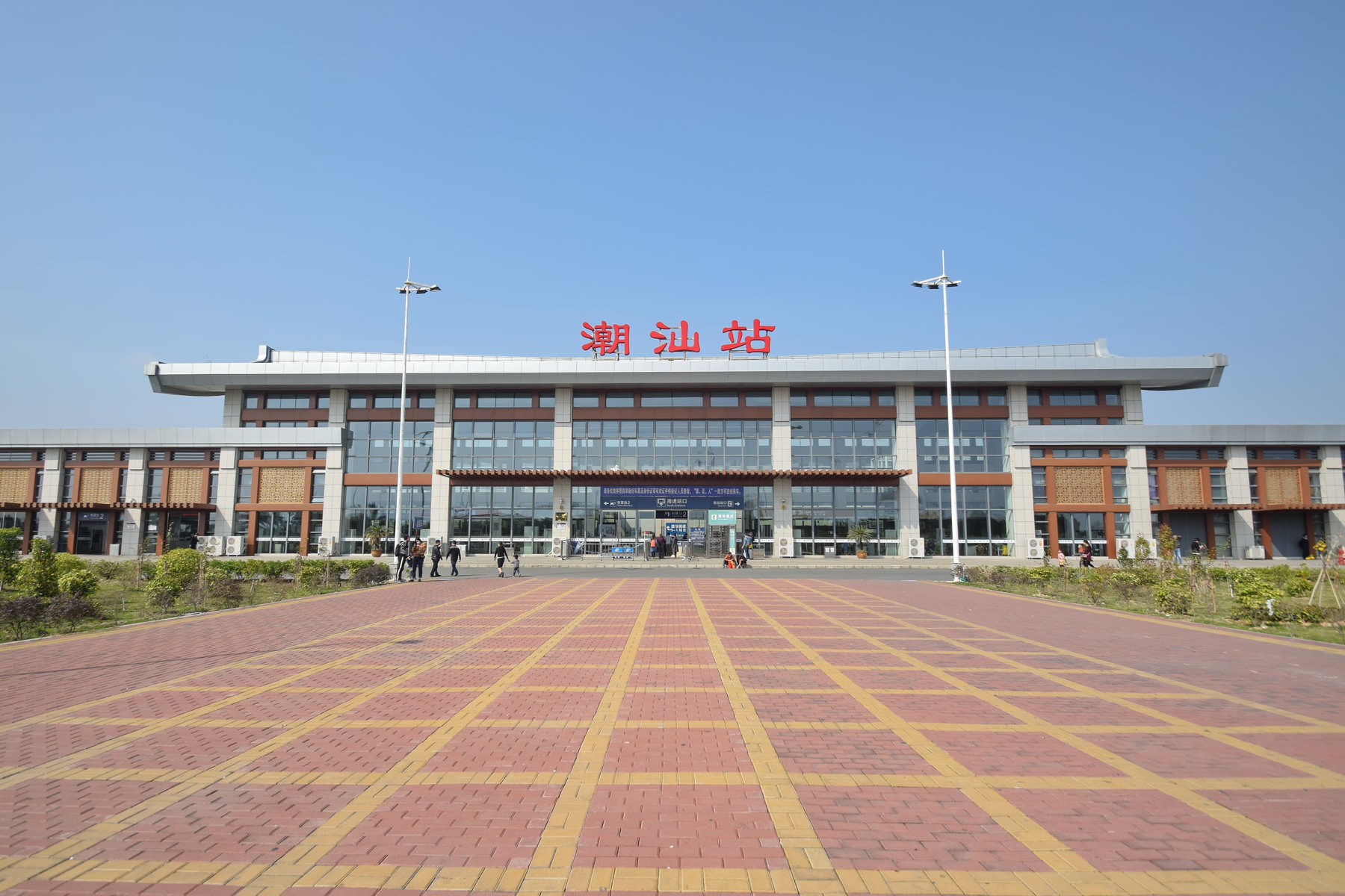 South Square of Chaoshan Railway Station